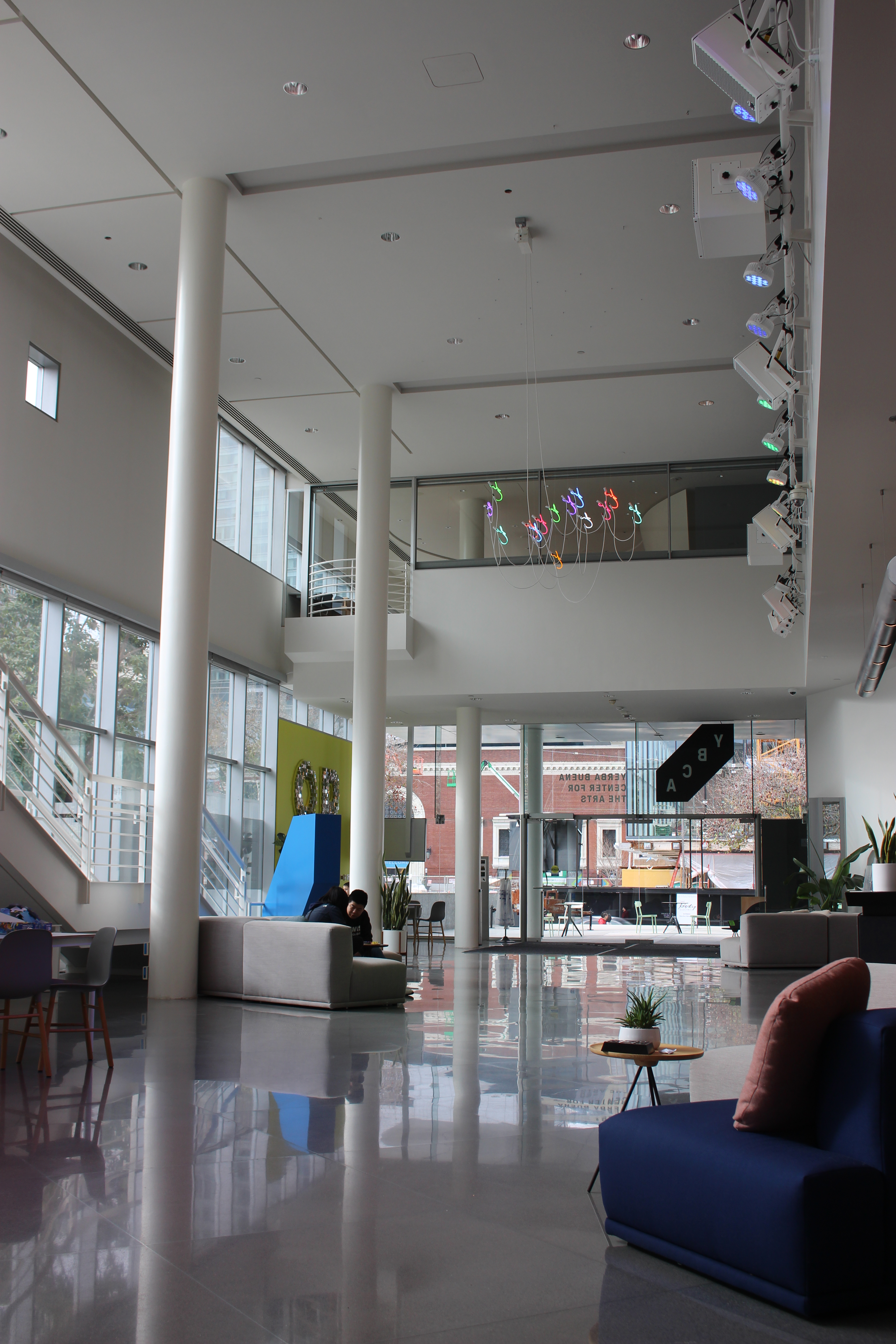 Interior lobby of the Yerba Buena Center for the Arts (YBCA) in the afternoon of February 22, 2020